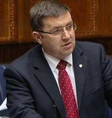 Robin Swann MLA speaking in Stormont